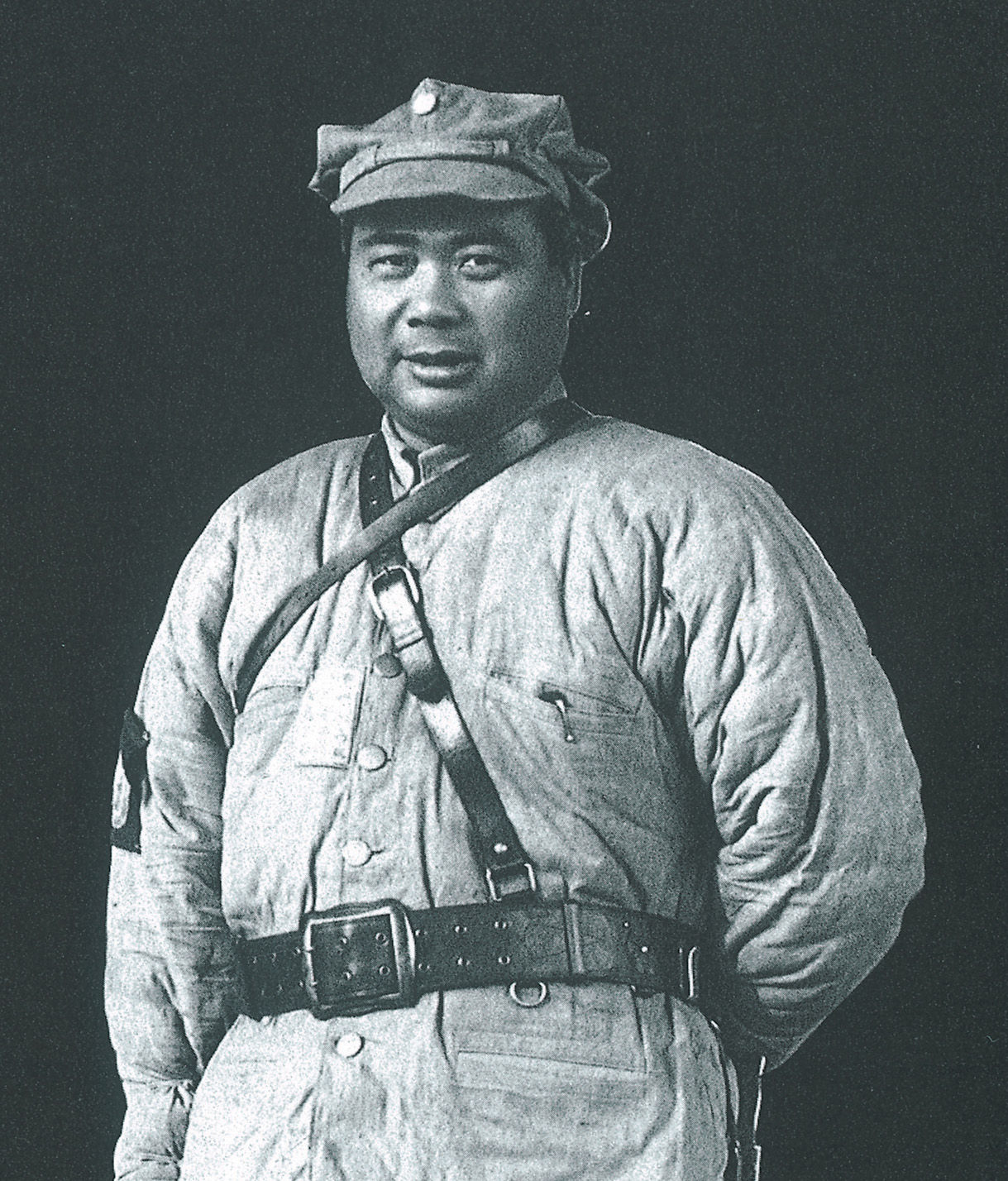 Chinese warlord Feng Yuxiang 冯玉祥